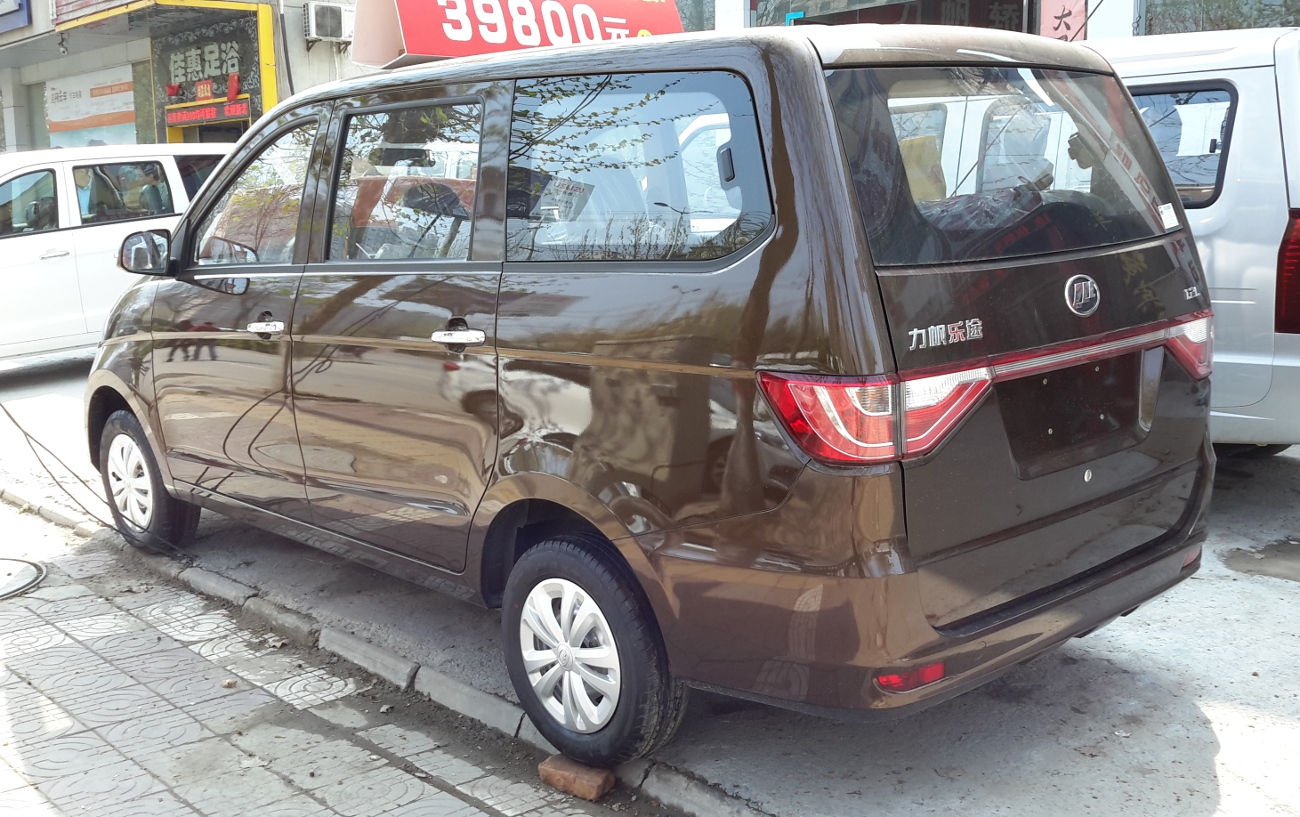 Lifan Lotto photographed in Xi'an, Shaanxi province, China.